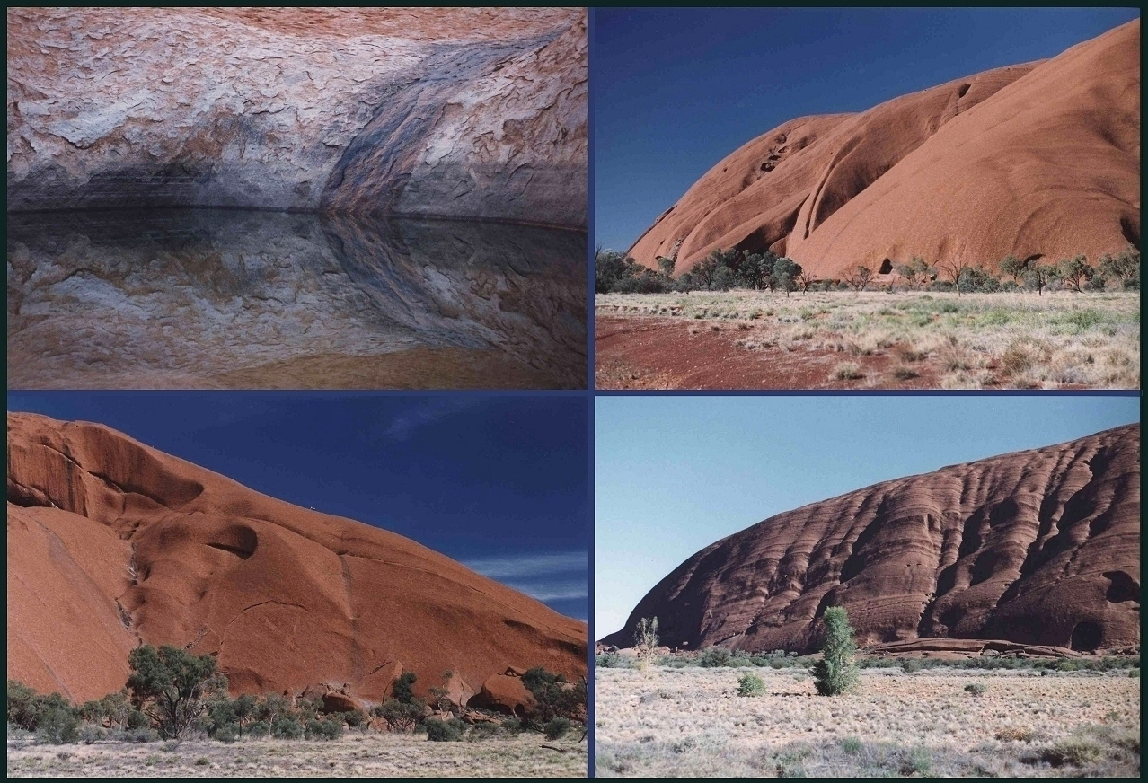 Rock formations and water features. Uluru (Ayers Rock), Australia.